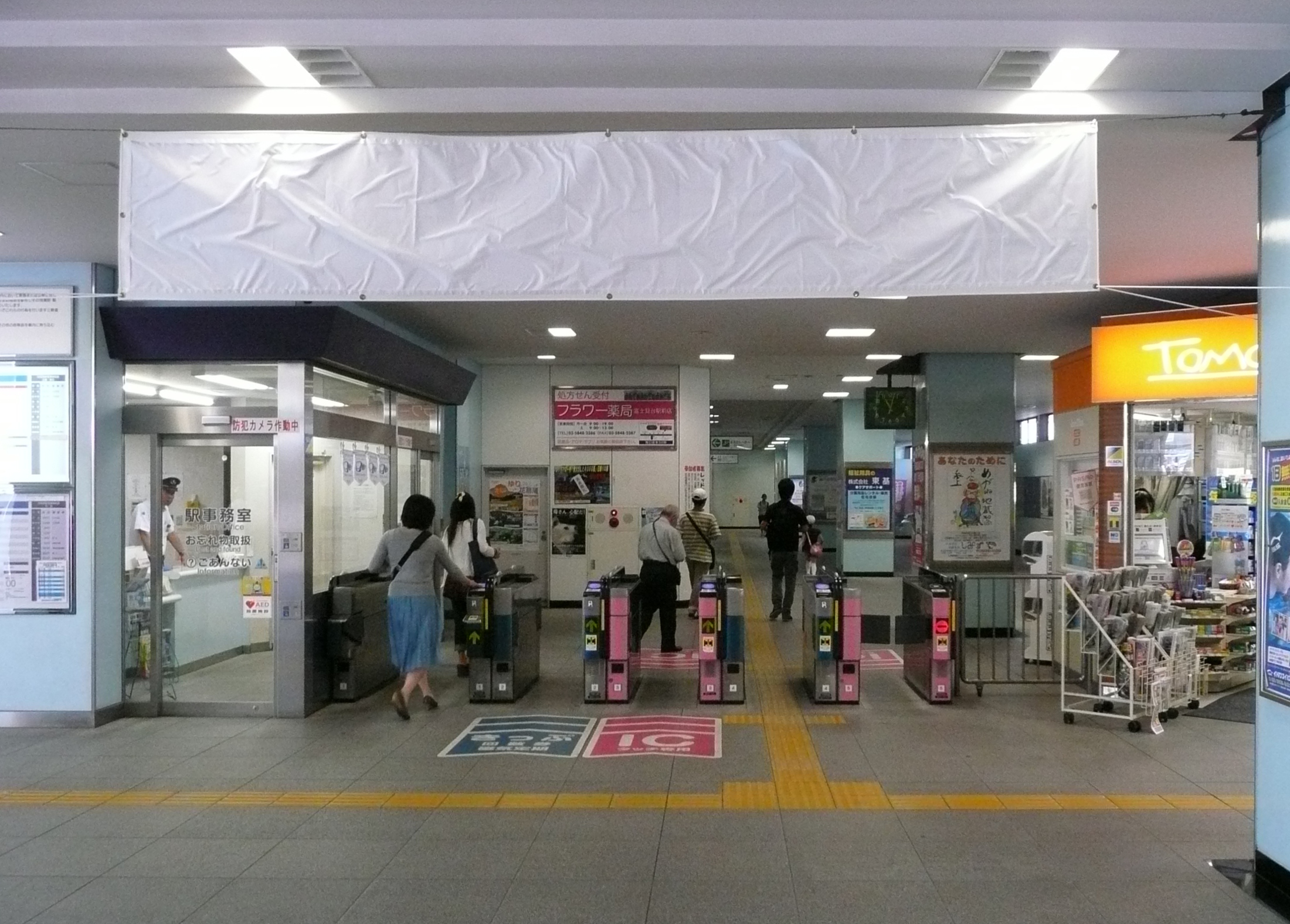 Ticket gate of Fujimidai Station